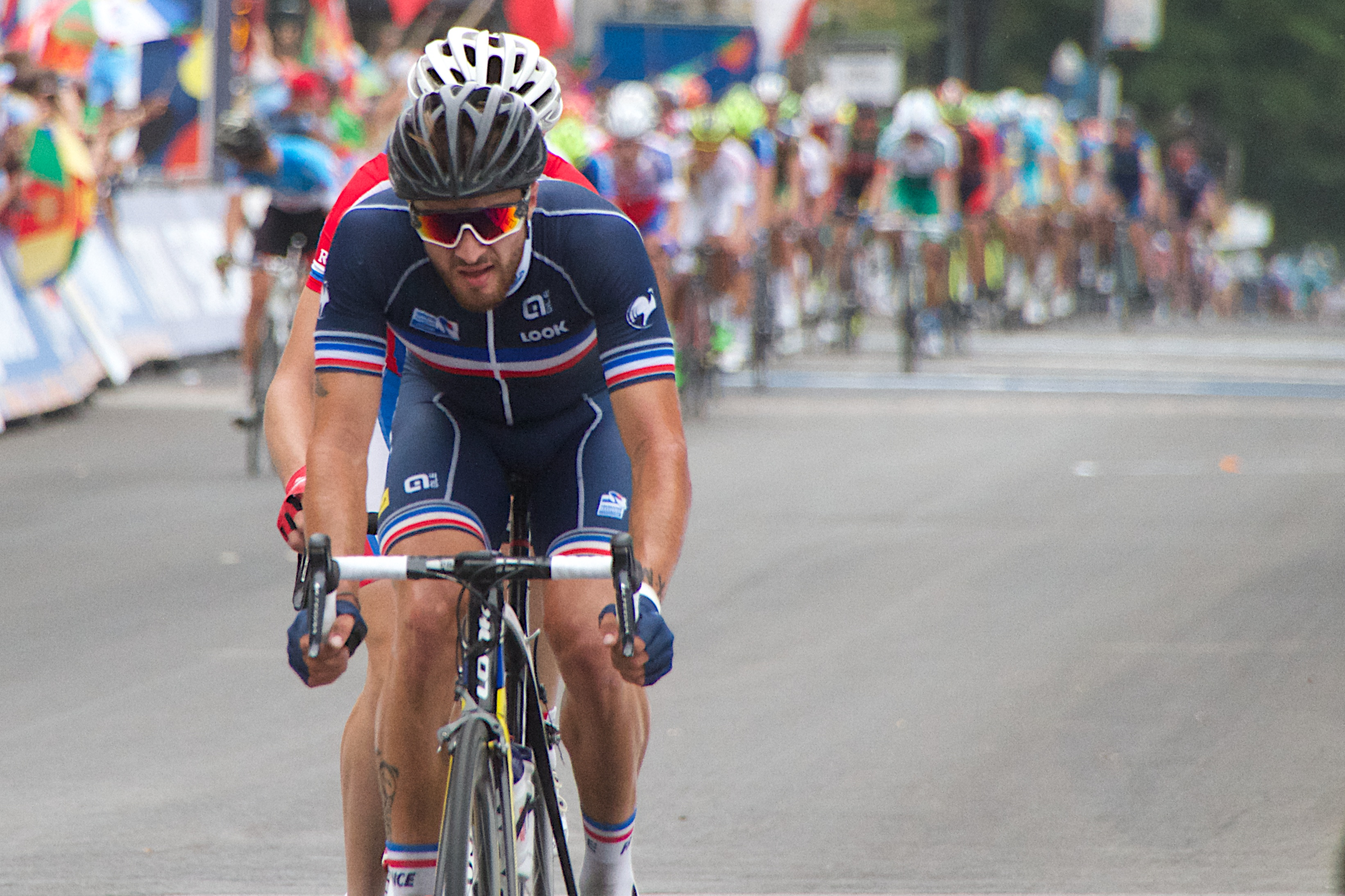 UCI Road Championship Races, Richmond VA 2015 UCI Road World Championships, in Richmond, United States, men's under-23 road race